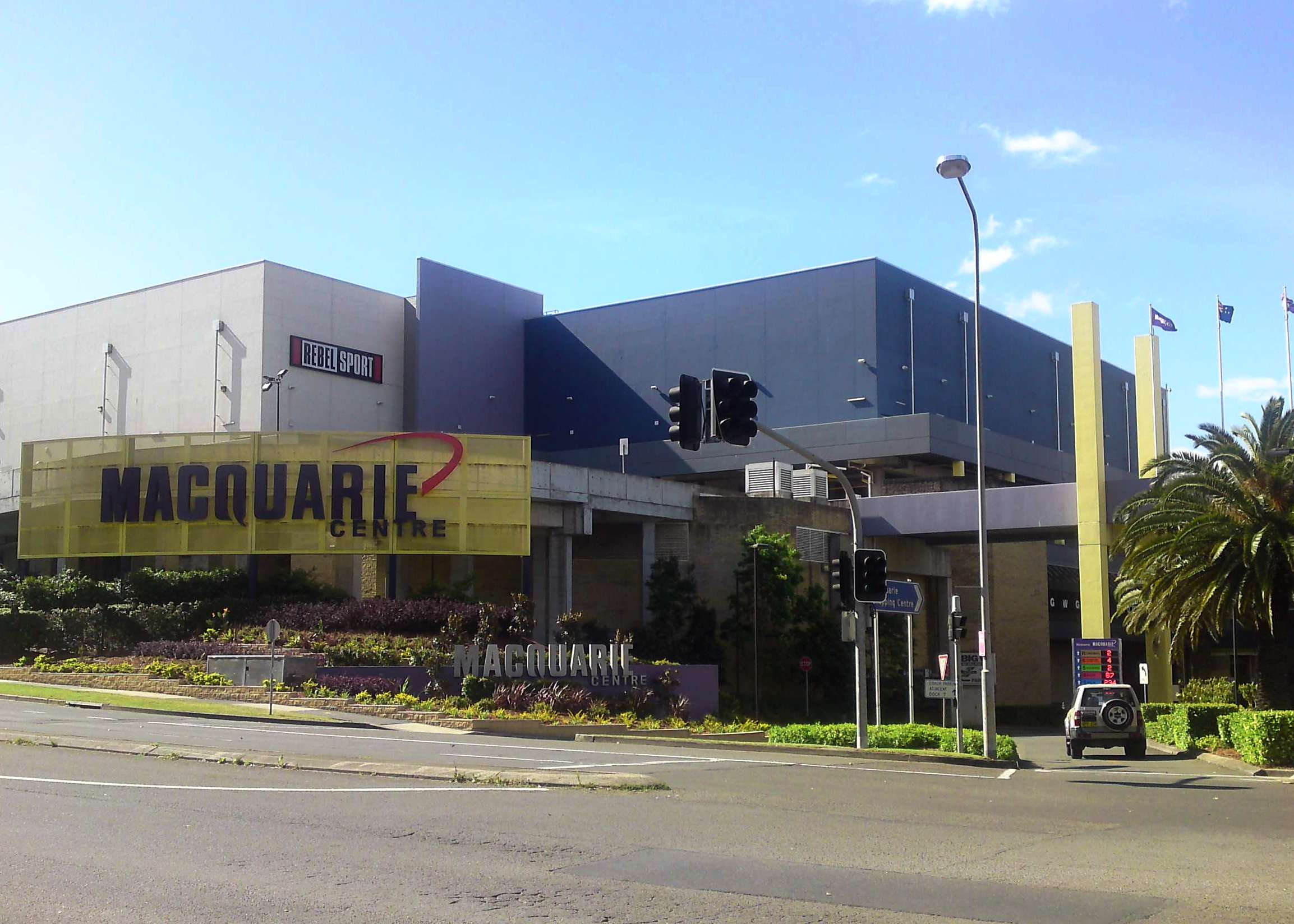 Macquarie Centre main carpark entrance on Waterloo Road, North Ryde, Sydney.